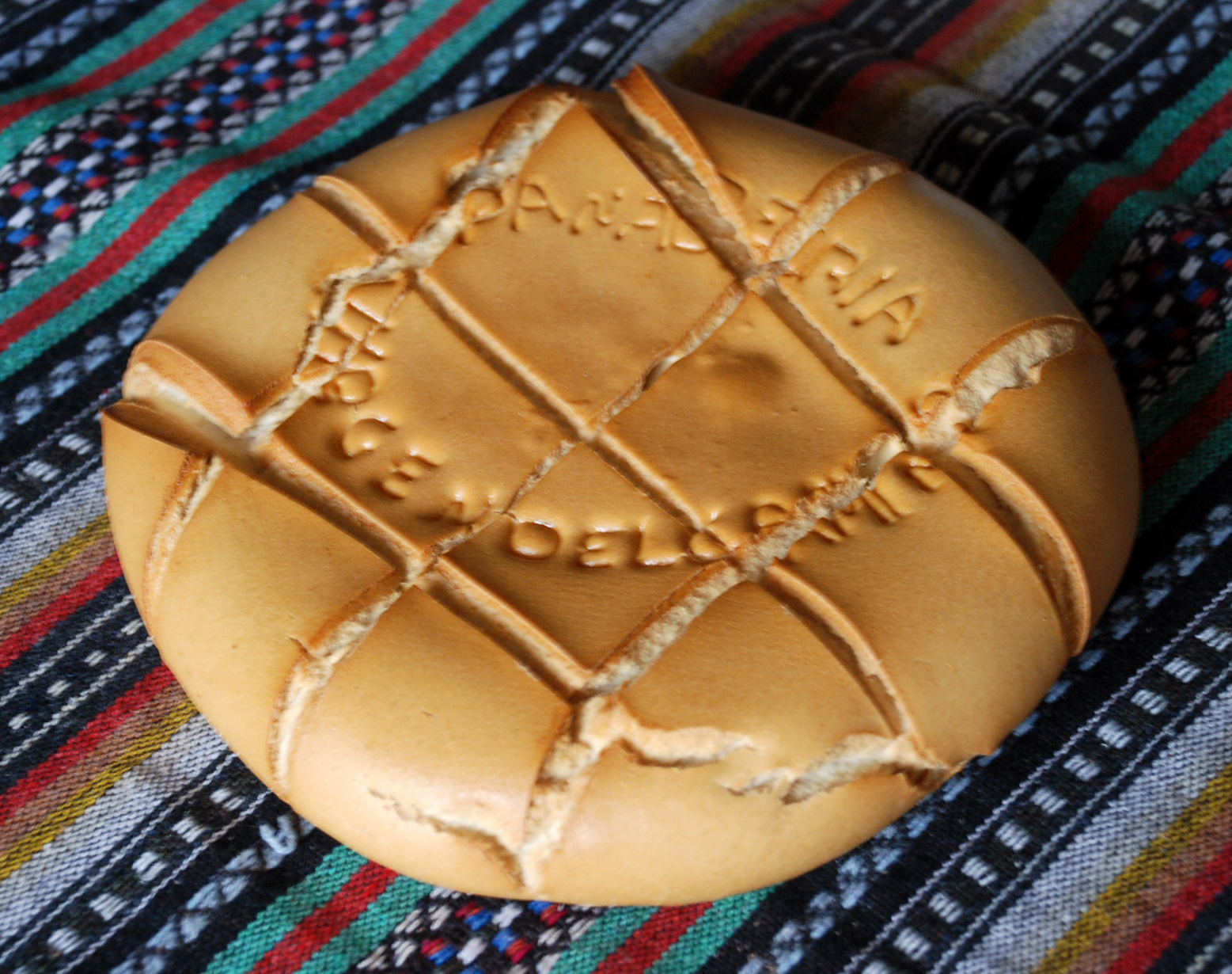 Small struggled wheat bread of Castrillo de Villavega (Palencia, Castile and León).